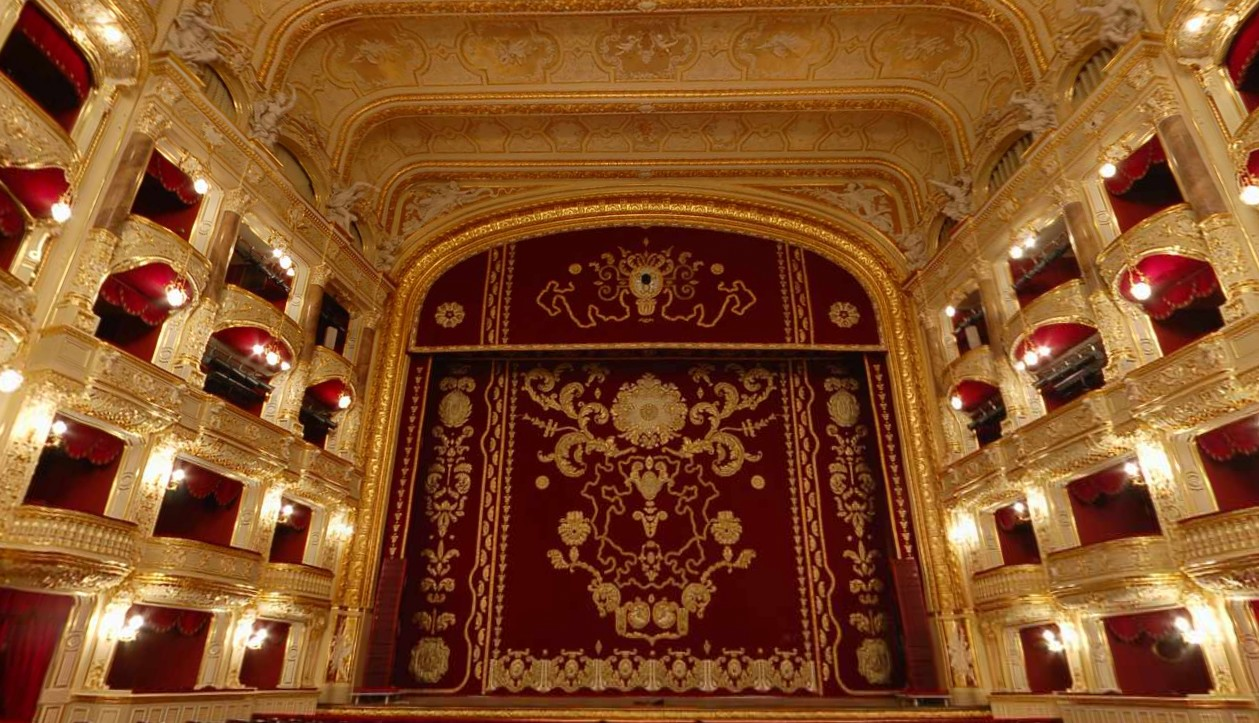 Hall and scene